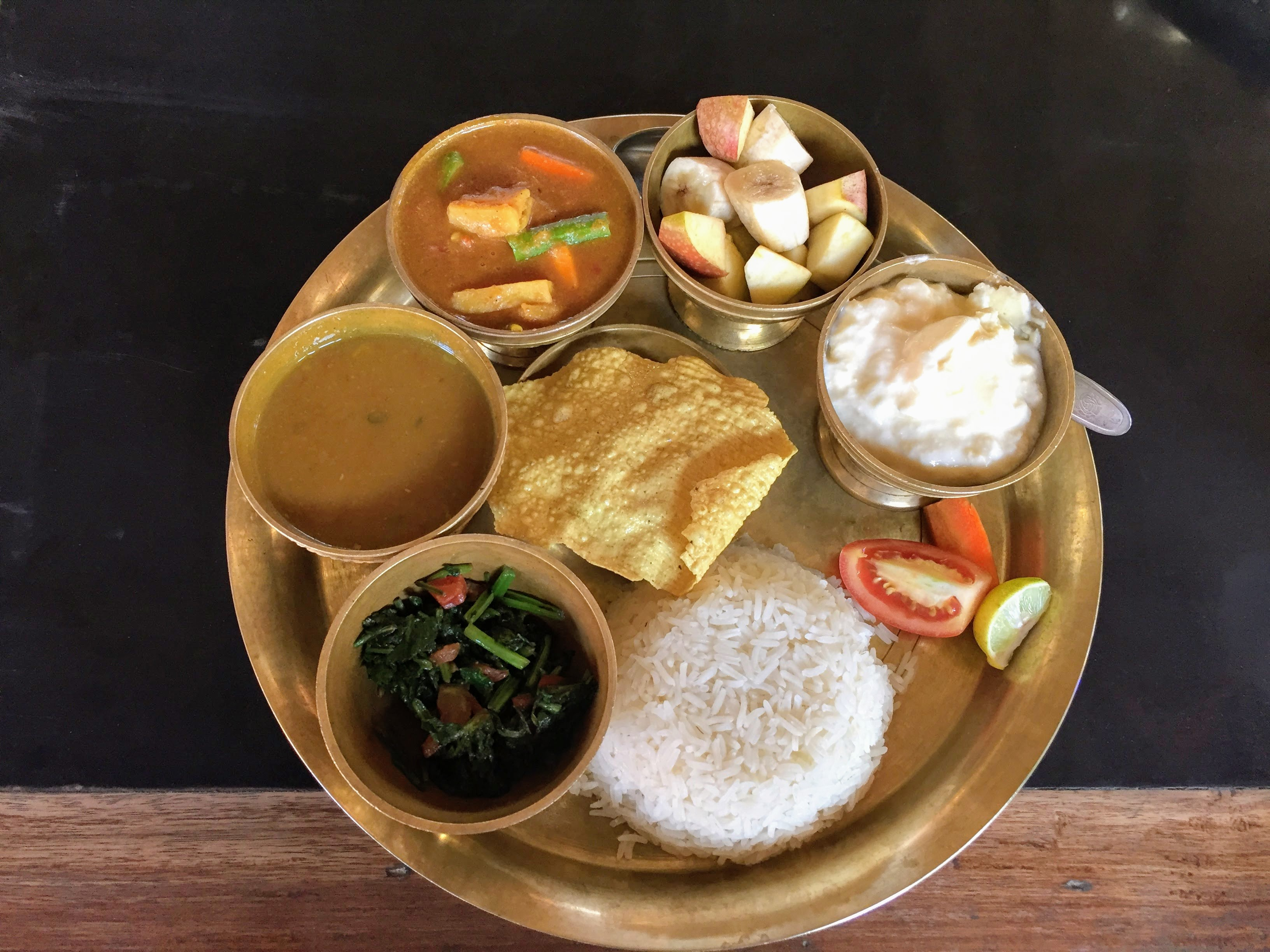 An assorted meal on a plate from Nepal containing a portion of bhat (rice), saag (leafy vegetable), dal (lentil soup), tarkari (vegetable curry), yogurt, papad and fruit salad.